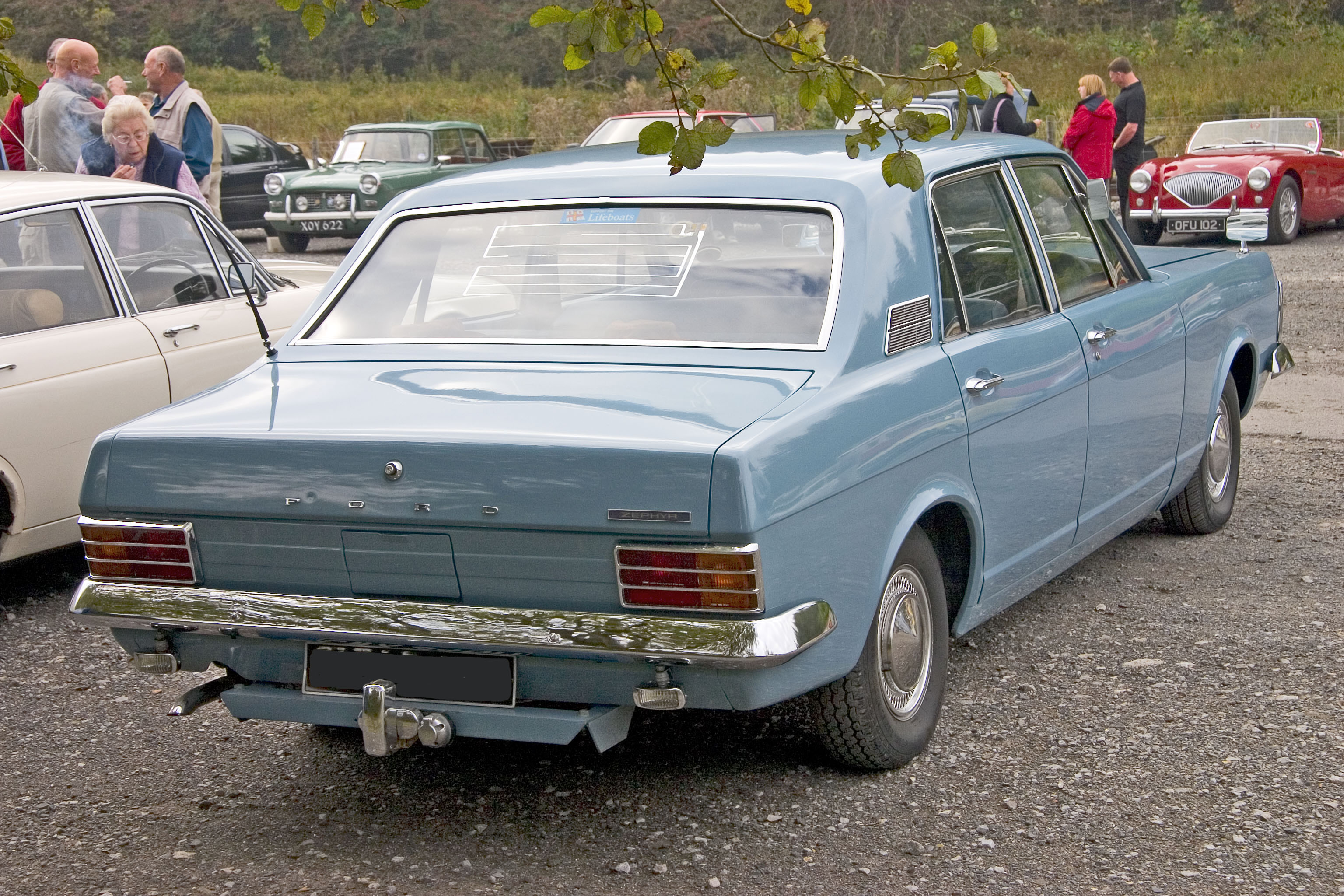 Ford Zephyr 4 MkIV (3008E). The 4cylinder Zephyr 4 was very simple in appearance, with hardly any trim.